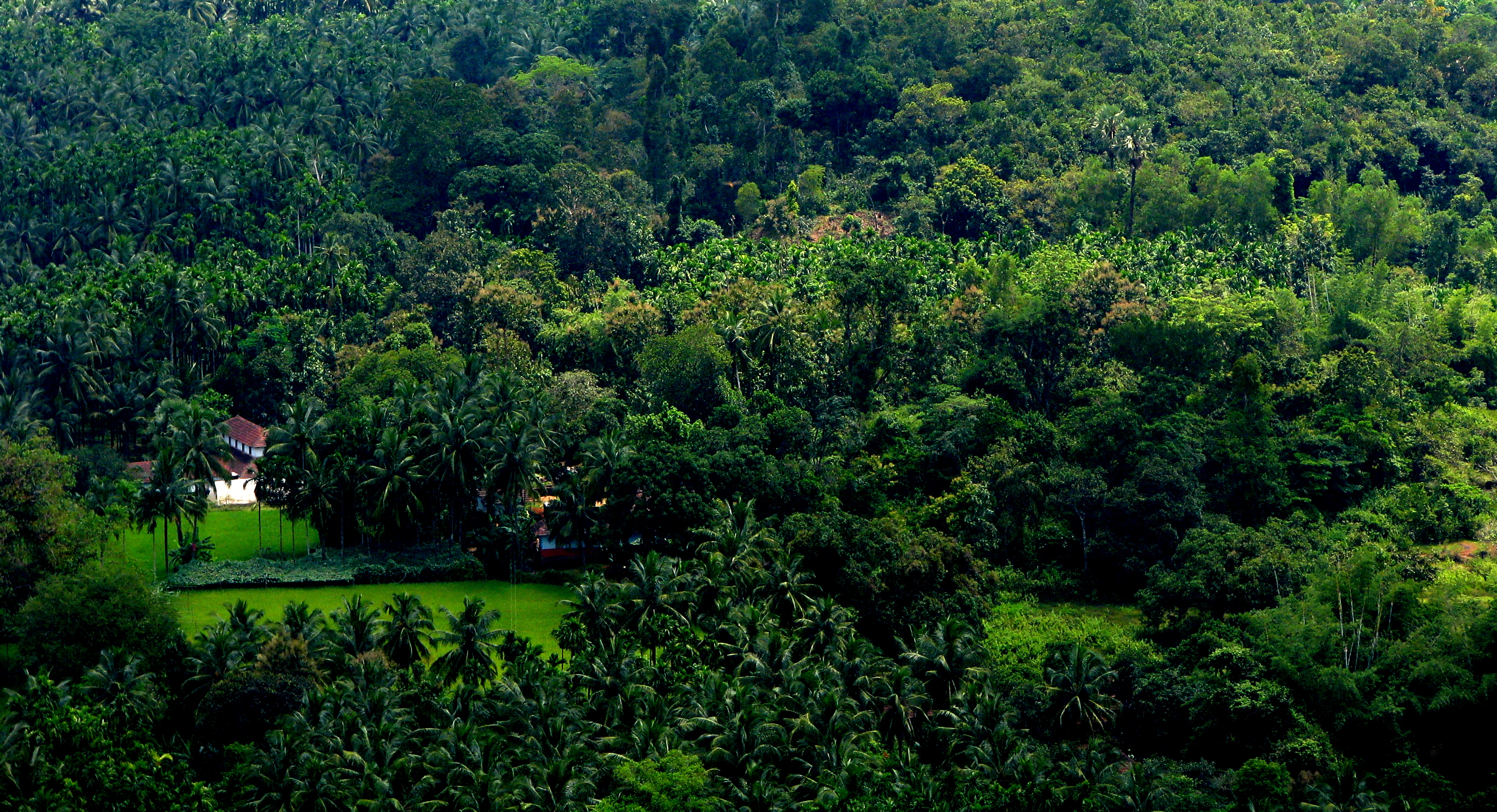 ..and that's my hometown! Utterly peaceful.. (Please View Large)